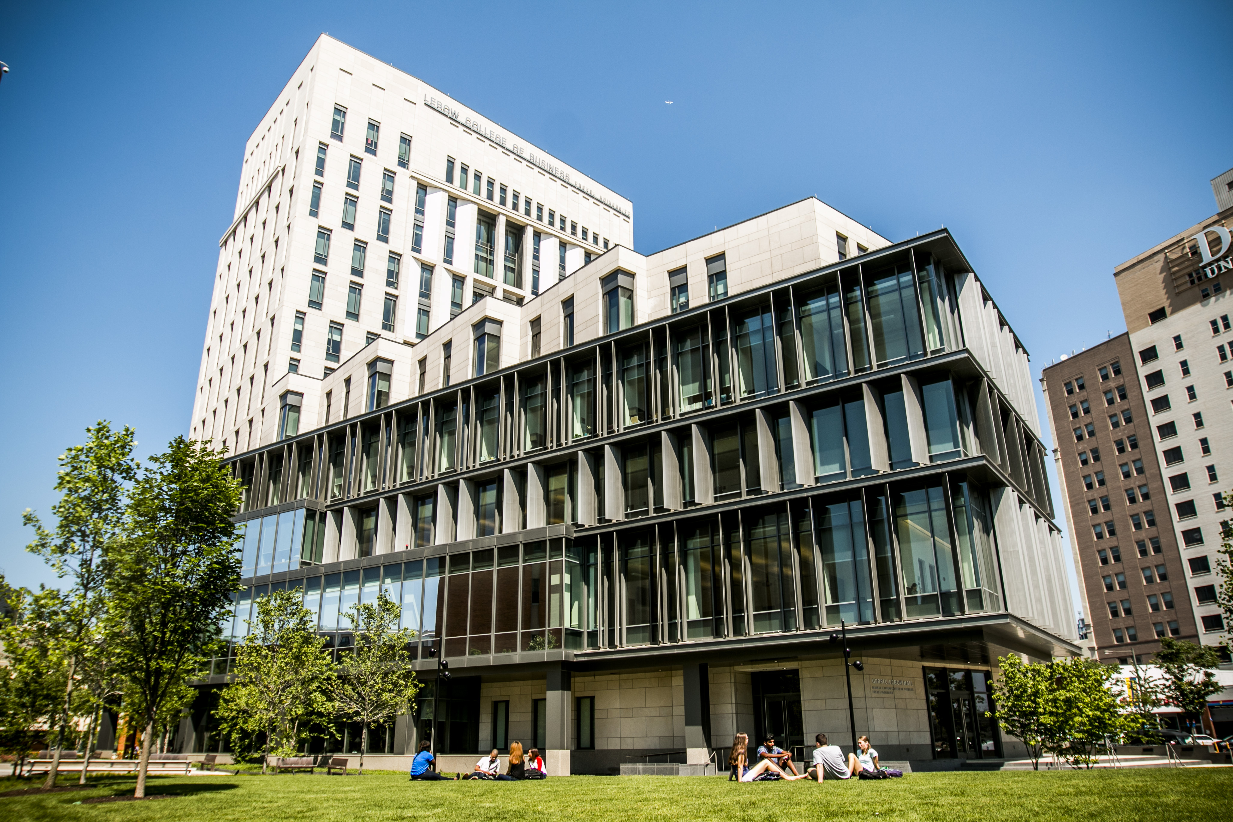 Exterior of Gerri C. LeBow Hall, the home of Drexel University's LeBow College of Business